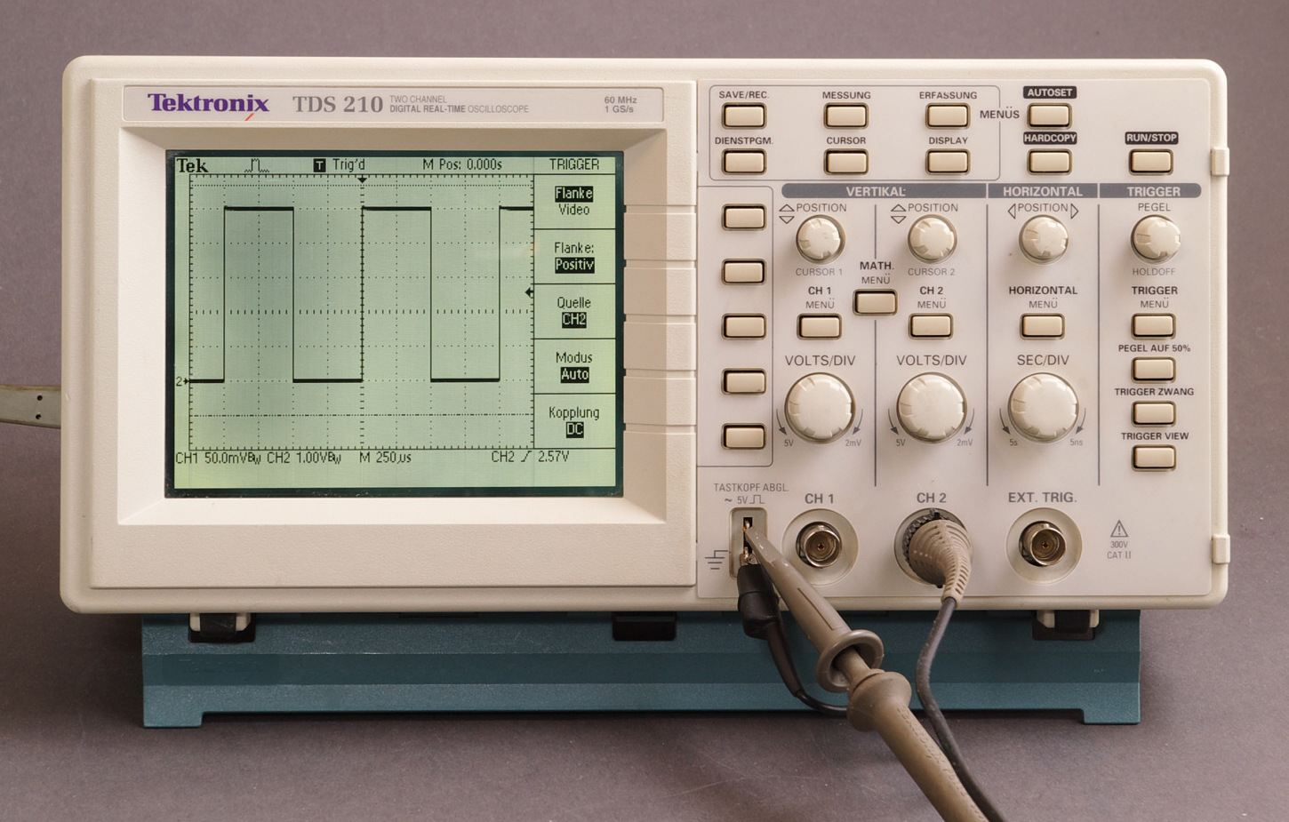 Tektronix TDS210 Digital Oscilloscope, the screen displays the calibration signal.